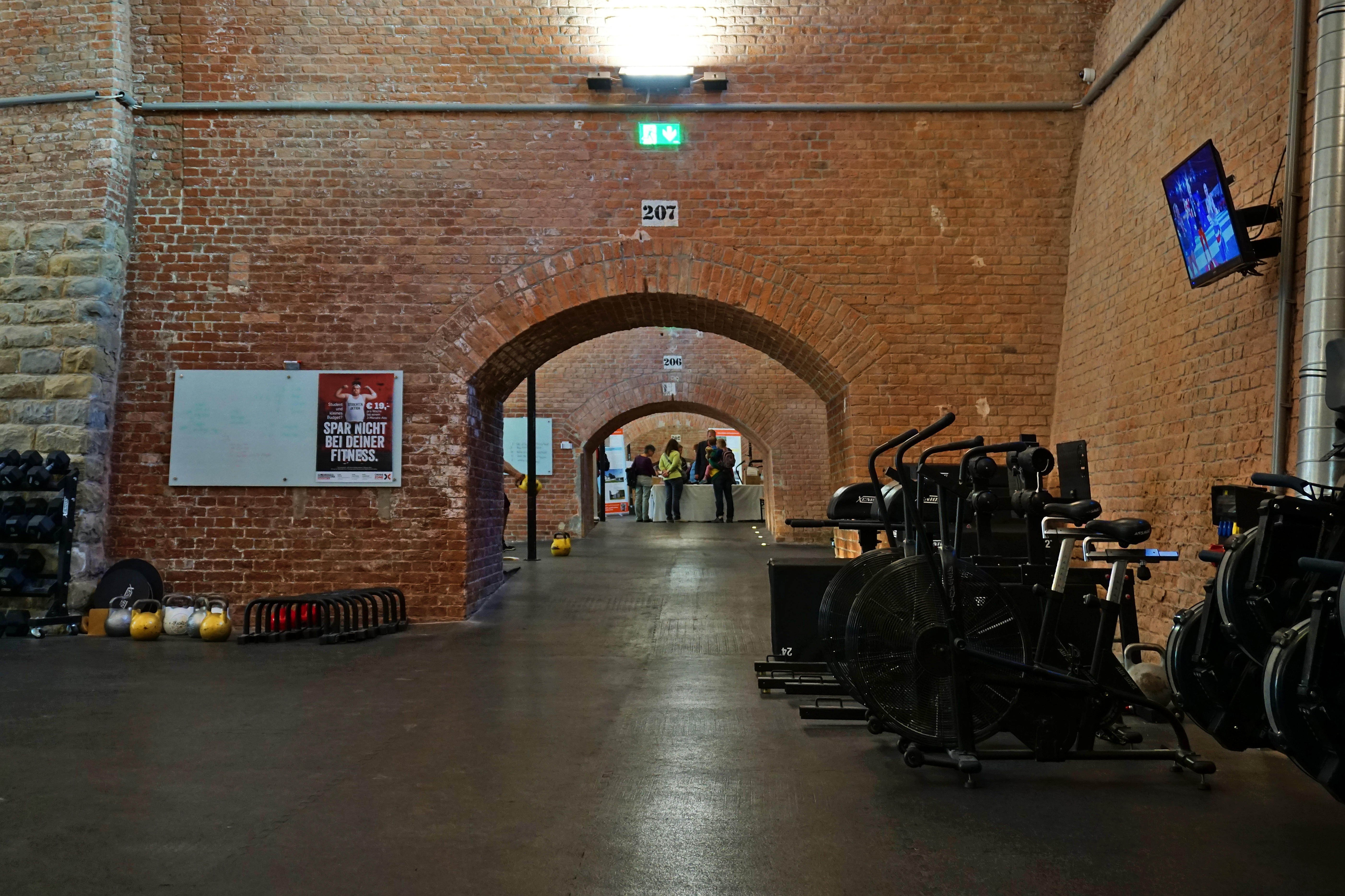 Stadtbahnbögen CrossZone